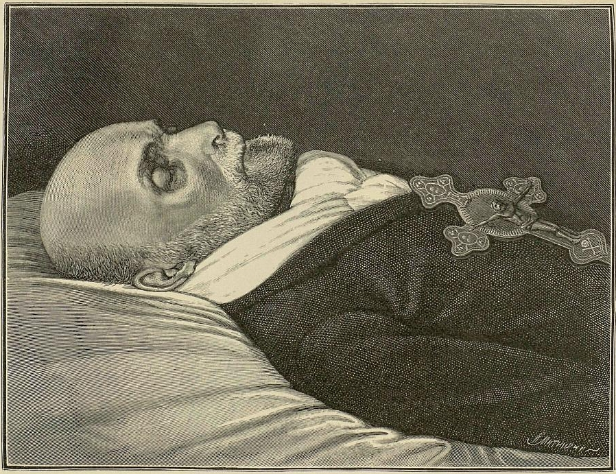 Nikolay Ivanovich Pirogov. Deathbed portrait